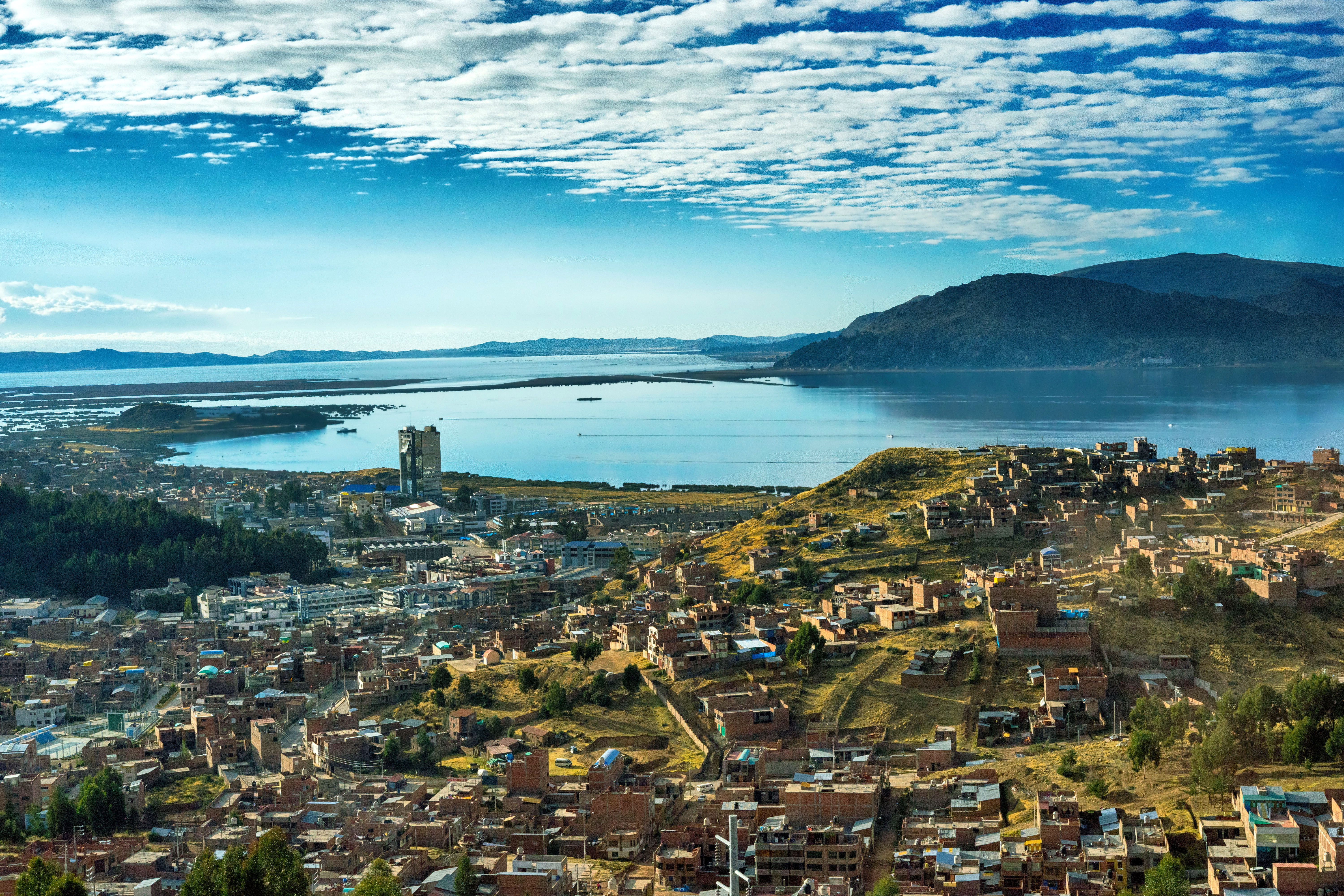 Puno is the way I imagine seaside towns in the Mediterranean. It's built up the cliffs and there are lots of great views of the city. I don't know why Ansel Adams bothered getting out of the car. You can take perfectly good photos from a bus window.